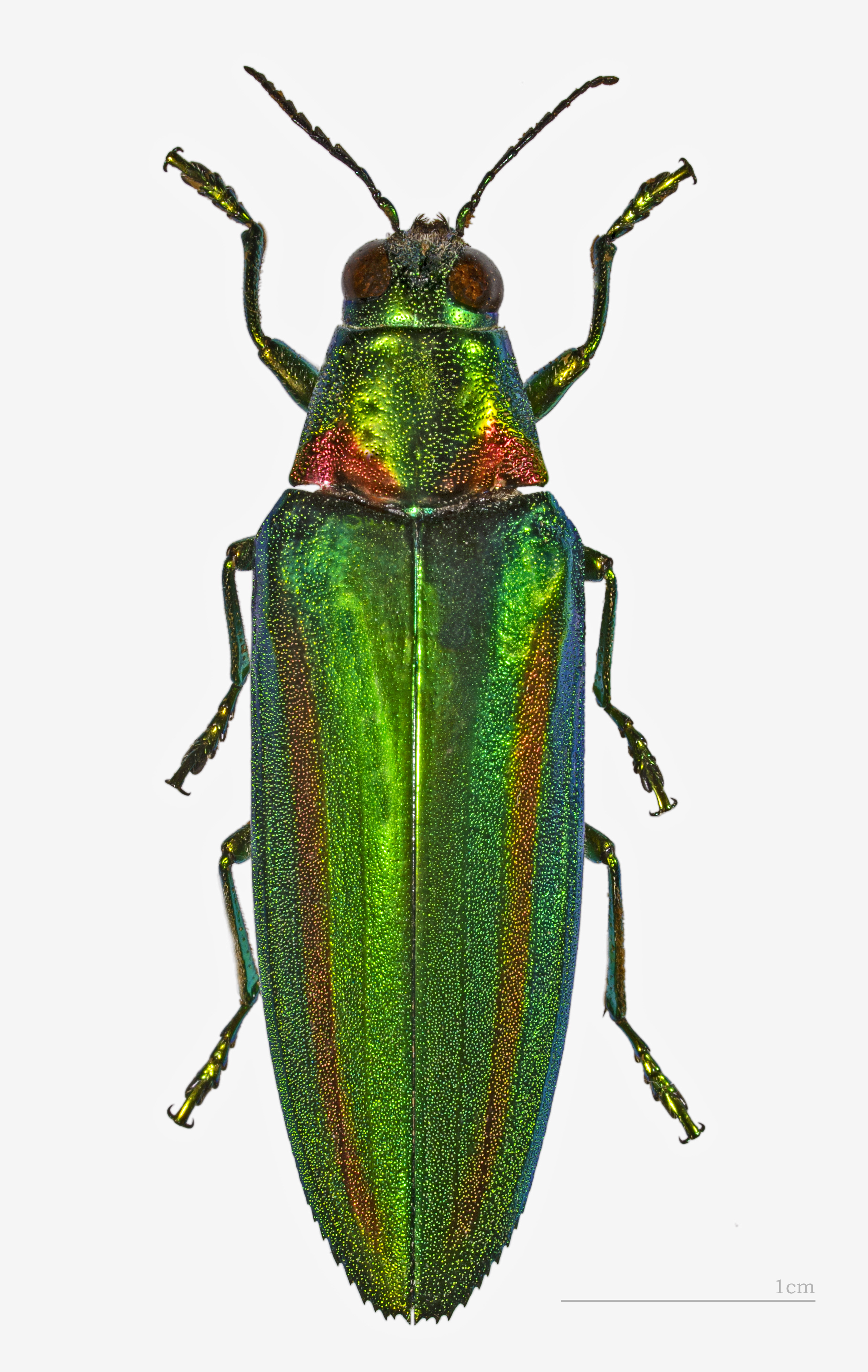 Female specimen Locality: San Sai District, Chiang Mai, Thailand